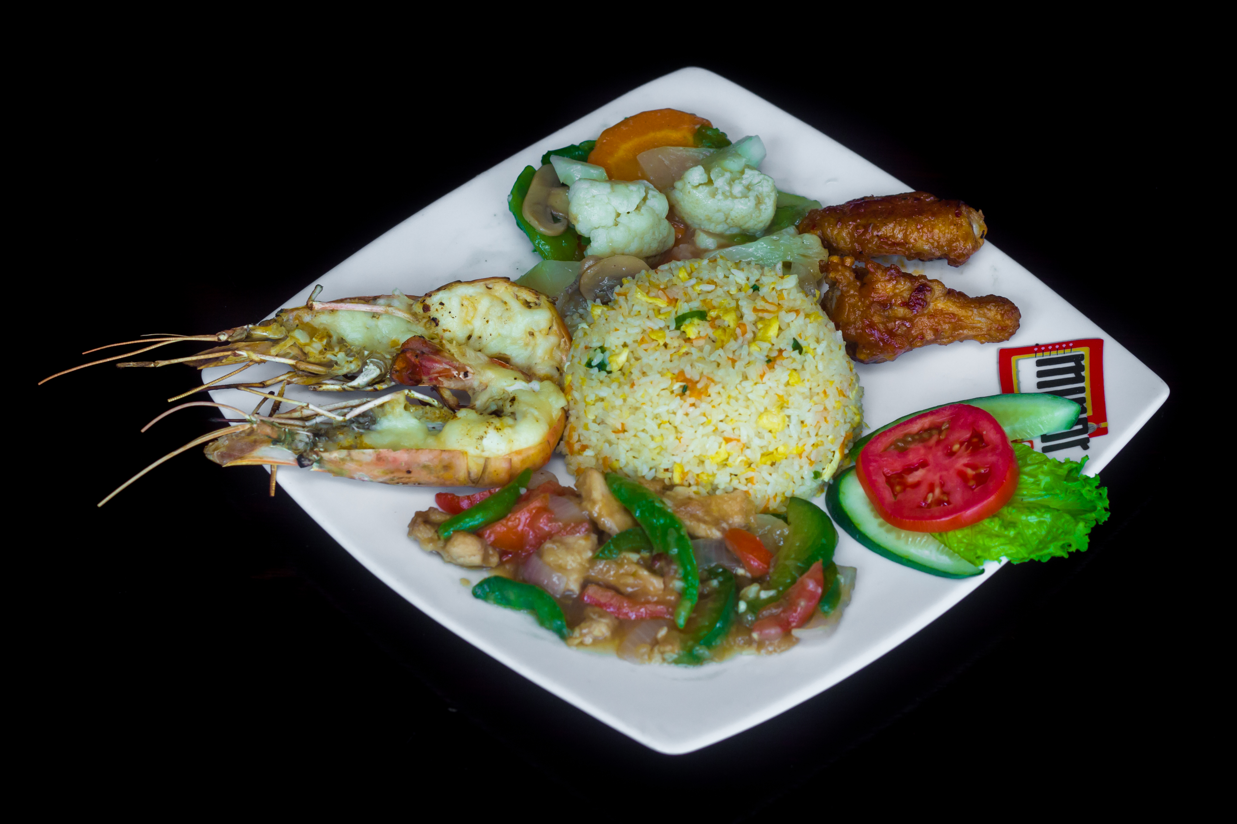 Fried Rice and Prawn Fry, C Minor Music Cafe